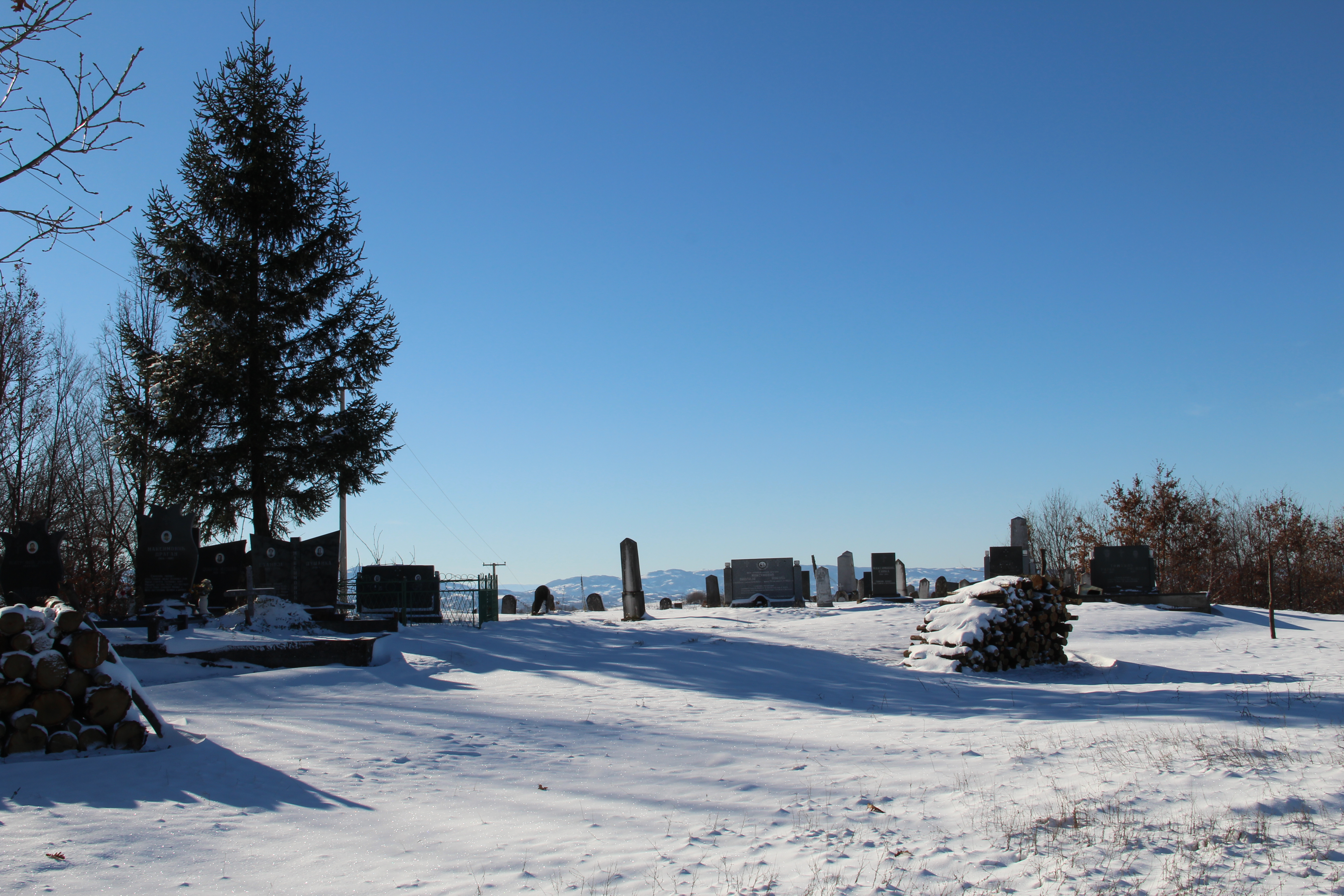 Ogladjenovac village - Municipality of Valjevo - Western Serbia - panorama 18